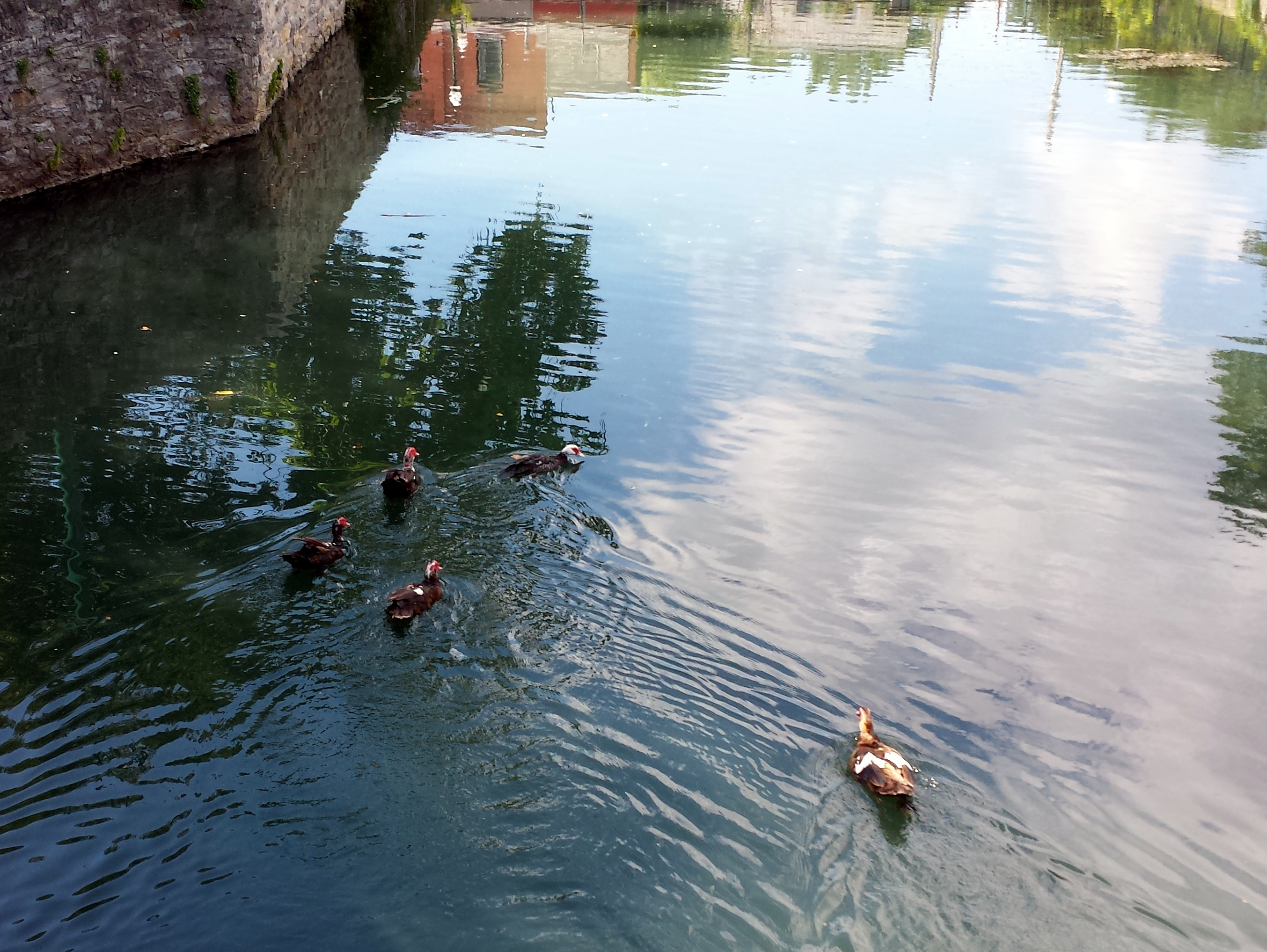 Ducks along Sager Creek